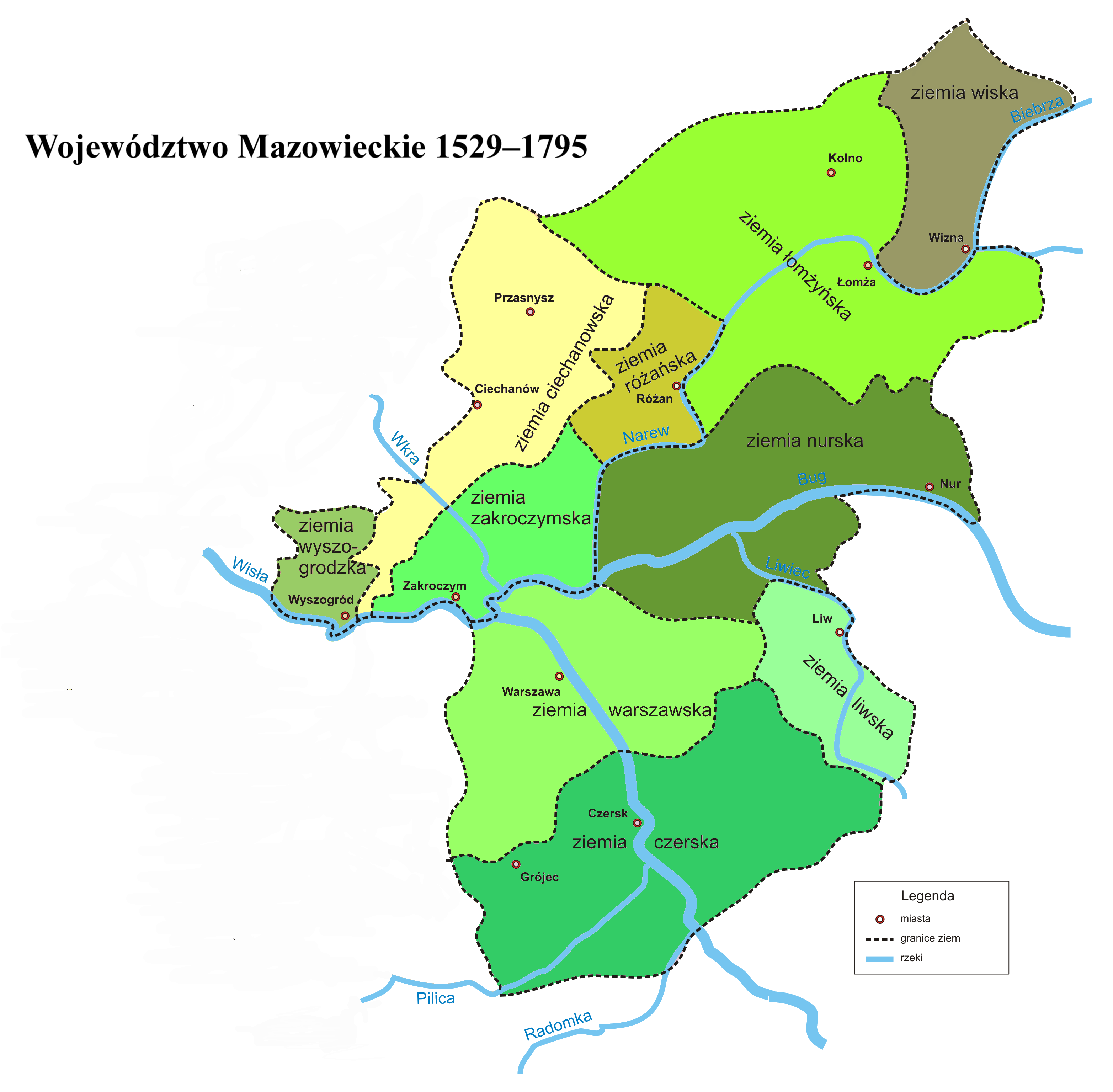 Masovian Voivodeship (1529–1795)